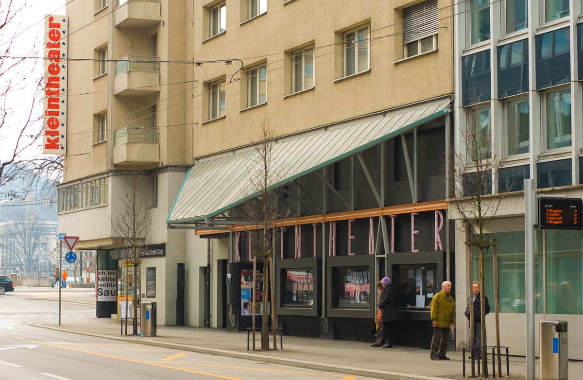 Kleintheater Lucerne